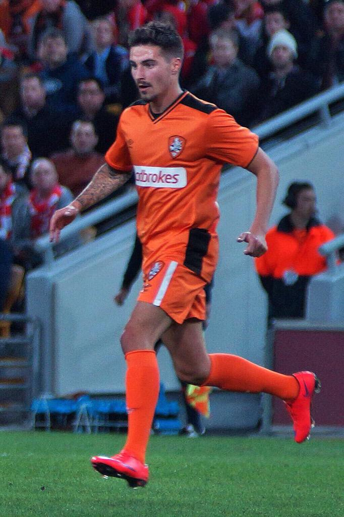 Jamie Maclaren playing for Brisbane Roar in a friendly match versus Liverpool FC, July 2015